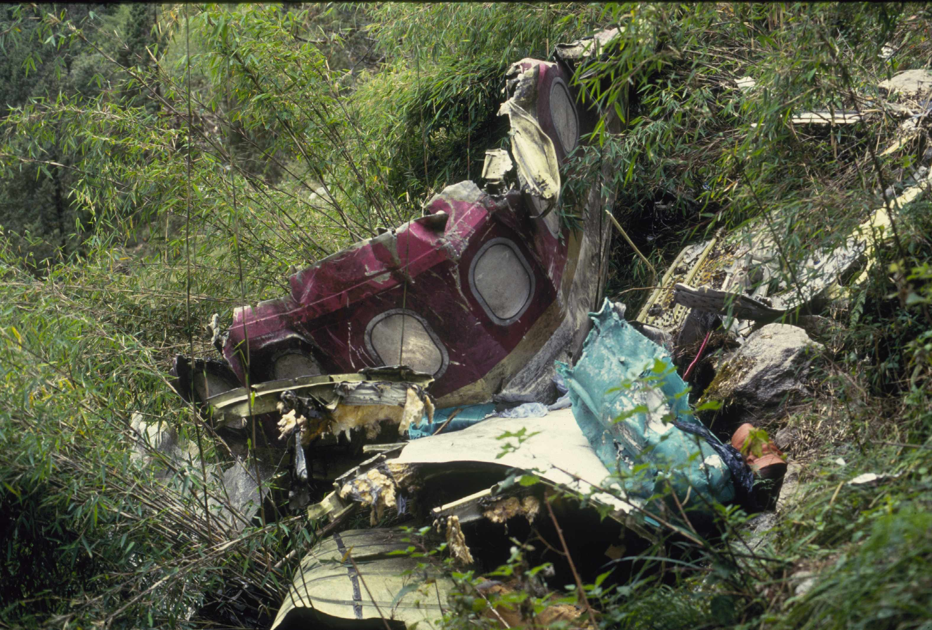 After finished rainy season, visited sites TG311 crashed to pray victims.